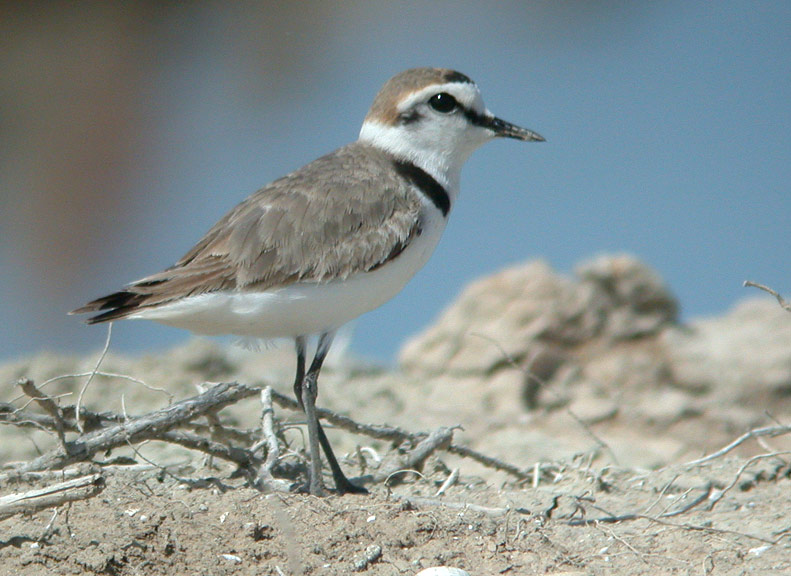 Kentish Plover, Charadrius alexandrinus, at breeding site on Bonanza saltpans, Cadiz, Spain